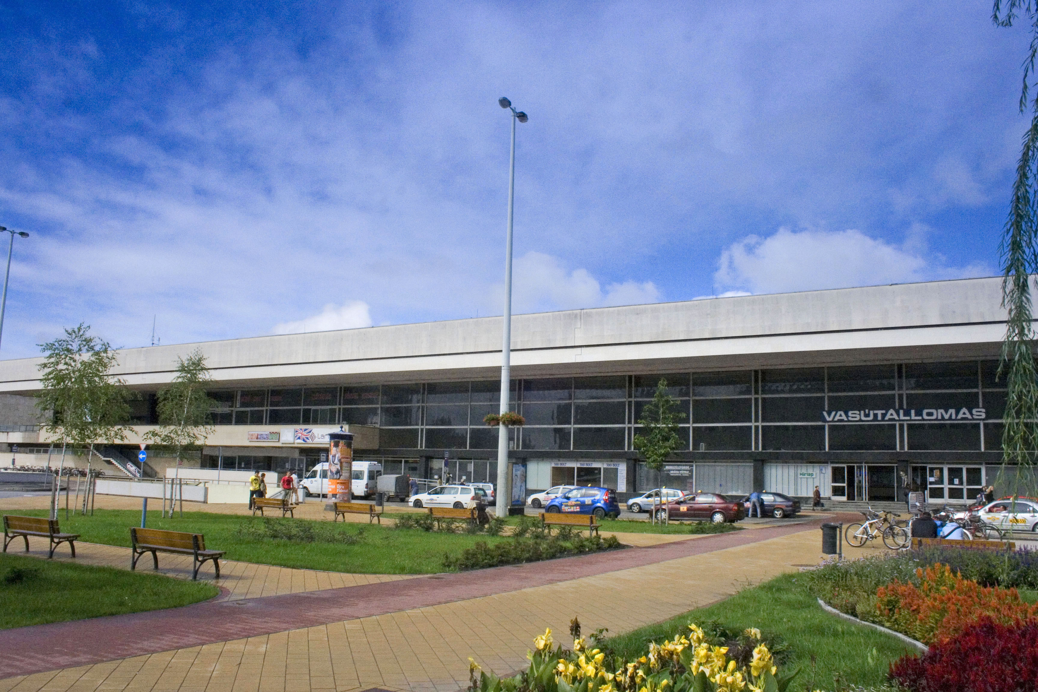 Hungary Szolnok railway station and bus station, Jubilee Square